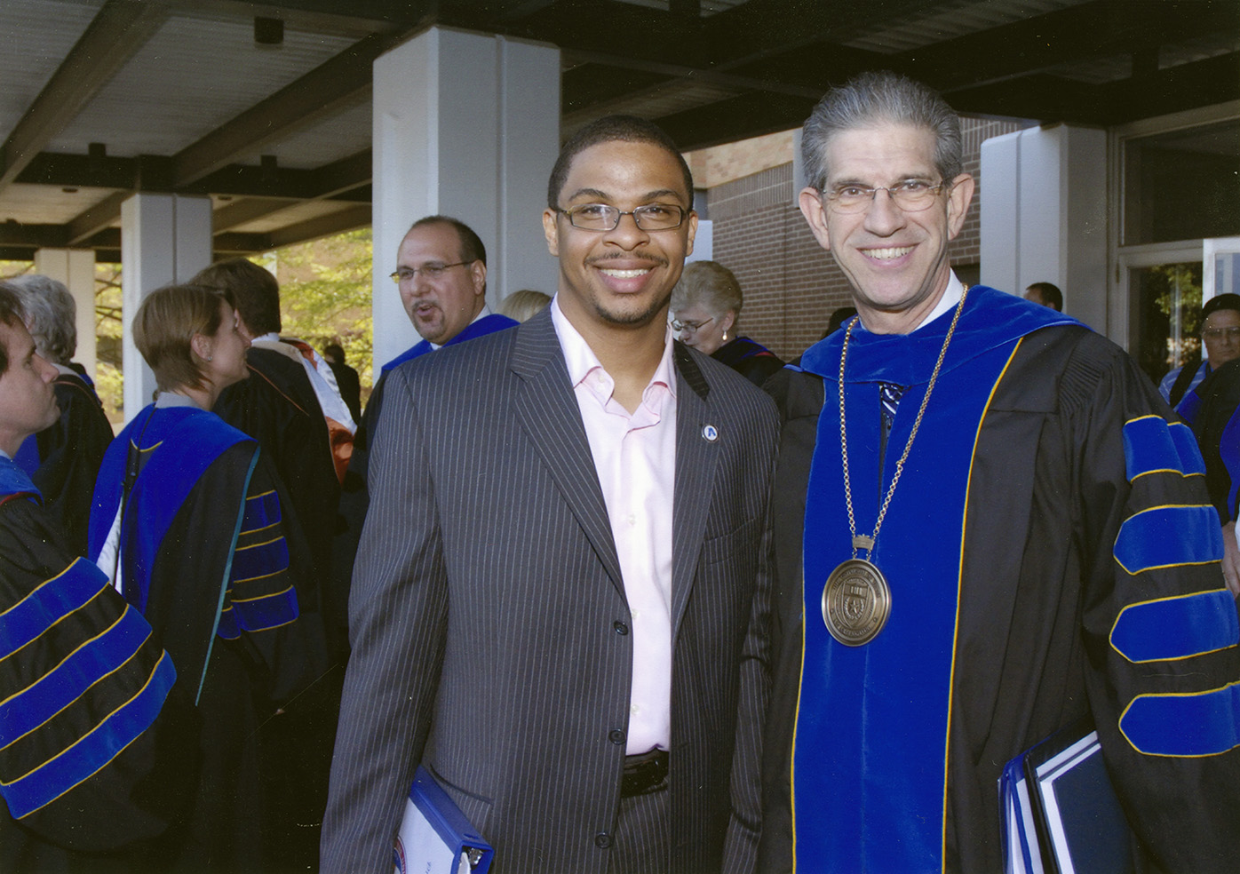 University of Texas at Arlington President Spaniolo with Roland Fryer, President's Convocation for Academic Excellence.